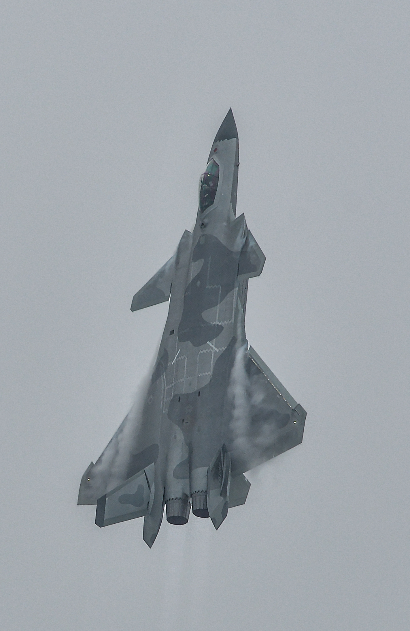 The latest fighter of Chinese Airforce.